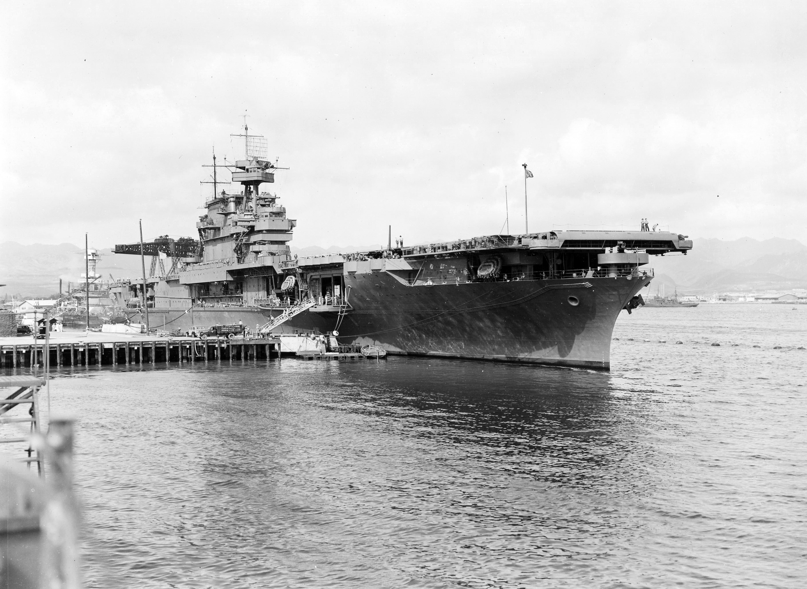 The U.S. Navy aircraft carrier USS Enterprise (CV-6) at Ford Island, Pearl Harbor, in May 1942, shortly before the Battle of Midway. Note the "nest" with 2x20mm Oerlikon guns on her bow under the flying deck which were installed at the end of March before the Doolittle Raid. The sunken battleship USS West Virginia (BB-48) is visible on the left.